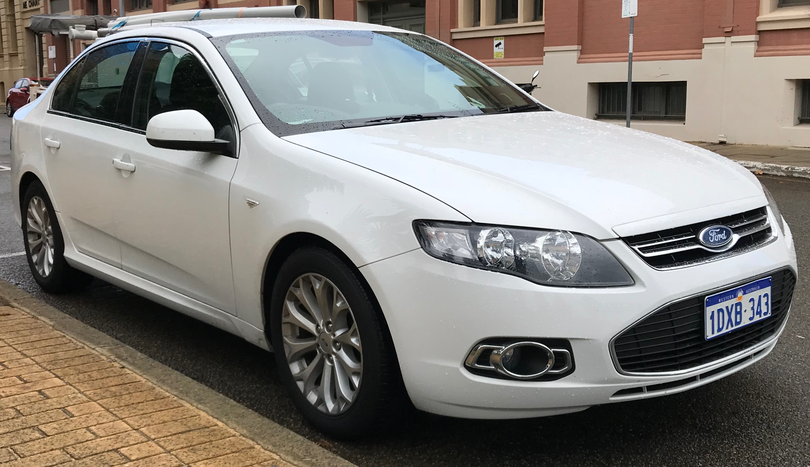 2012 Ford Falcon (FG II) G6 sedan. Photographed in Fremantle, Western Australia, Australia.